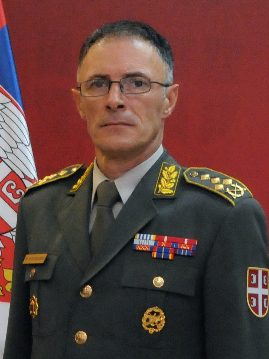 Chief of General Staff